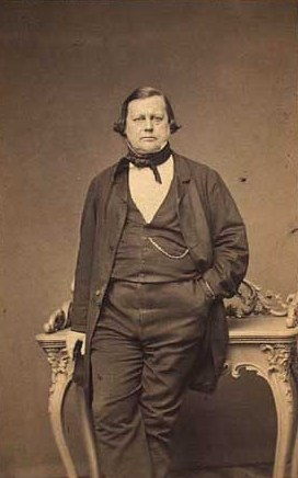 Carl Valentin Holten (1818-1886), Danish physicist